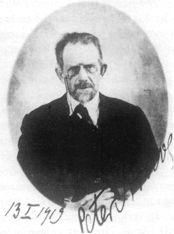 Peter Berngardovich Struve.